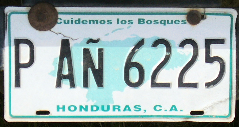 Honduran license plate for a personal vehicle with Ñ